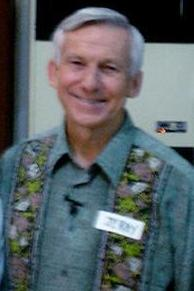 Jerry White after speaking at a church in Manila